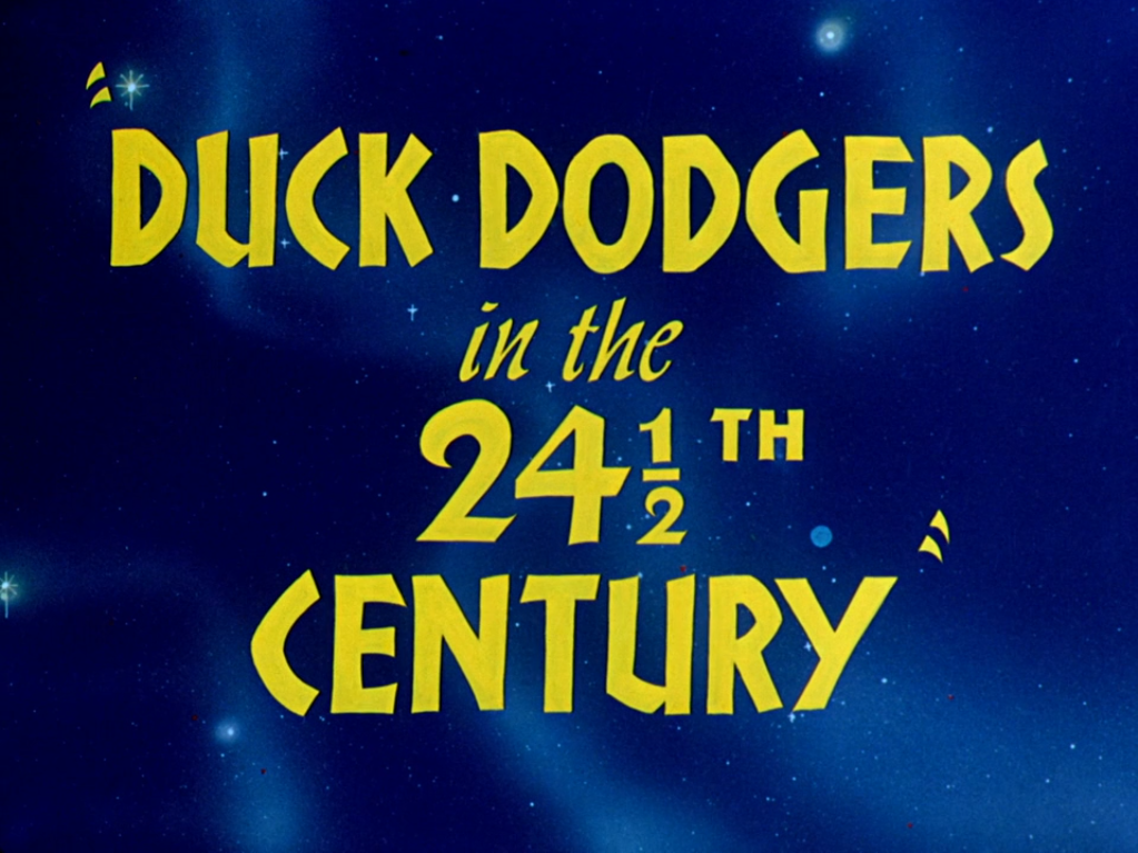 Title card from Duck Dodgers in the 24½th Century